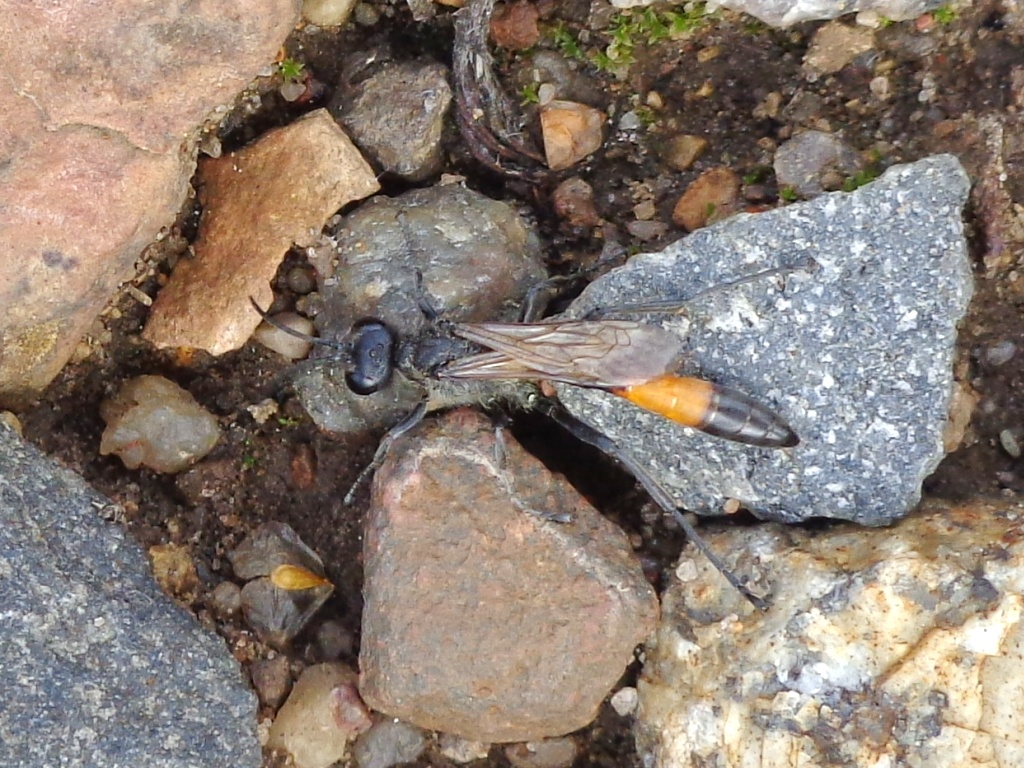 Ammophila campestris. Found in Rīga town, Latvia